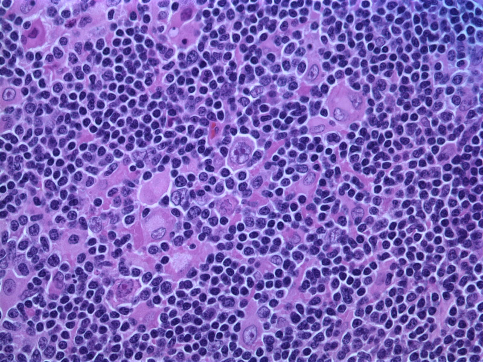 Hodgkin lymphoma, nodular lymphocyte predominant - high power view - H&E. Author: Gabriel Caponetti, MD